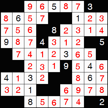 9x9 Str8ts Solution (easy grade)